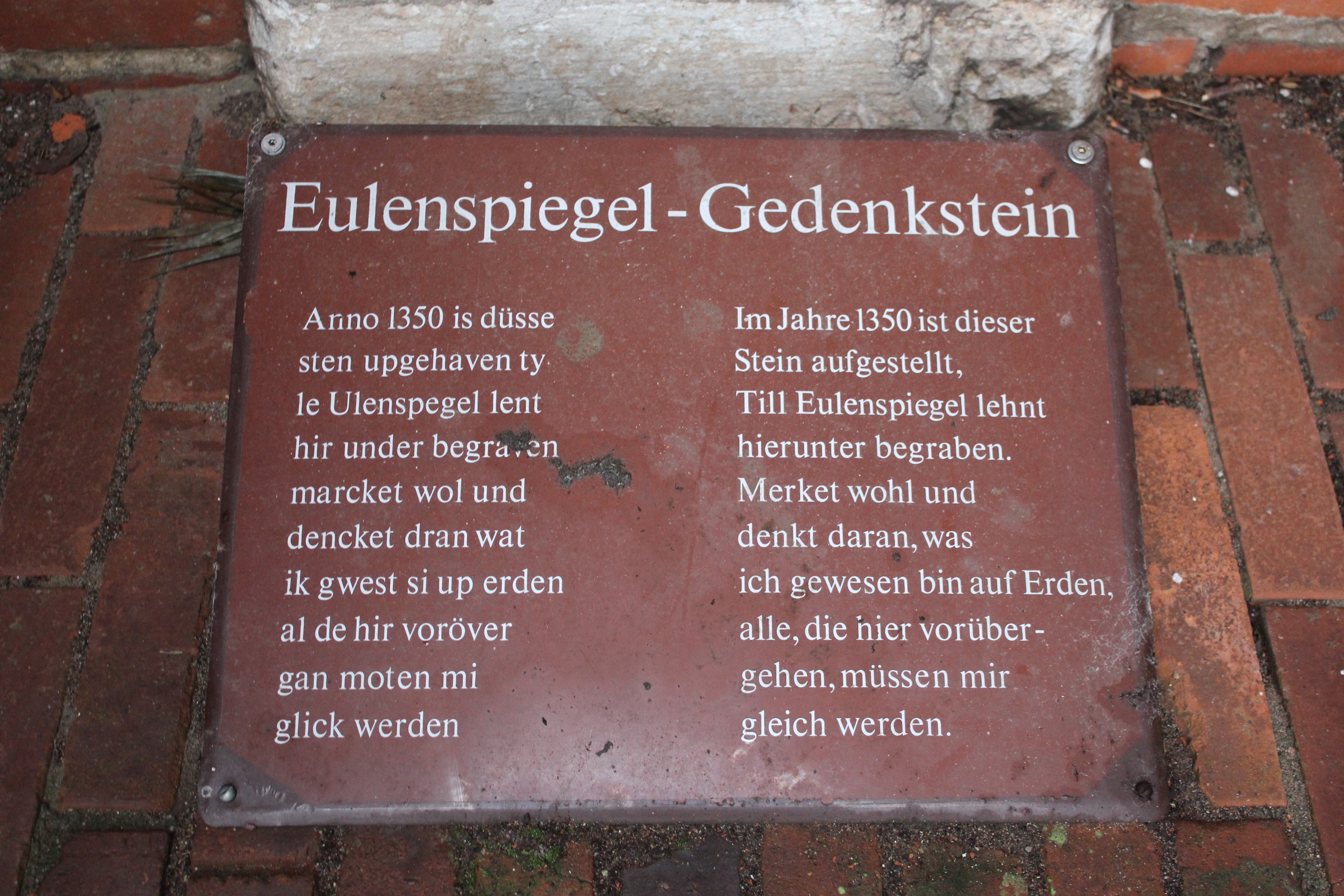 Table of the Eulenspiegel-Memorial-Stone (Gravestone)